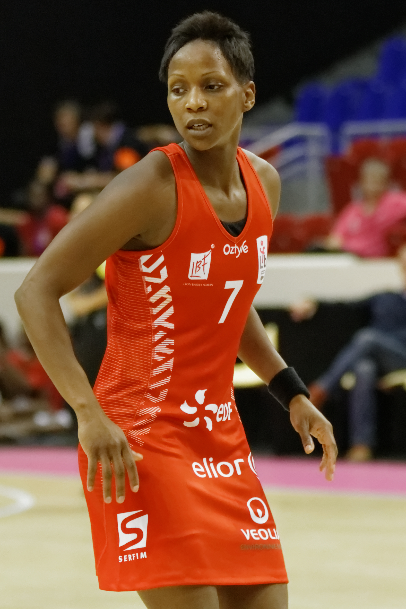 Open LFB, Arras-Lyon, October 6th, 2013.